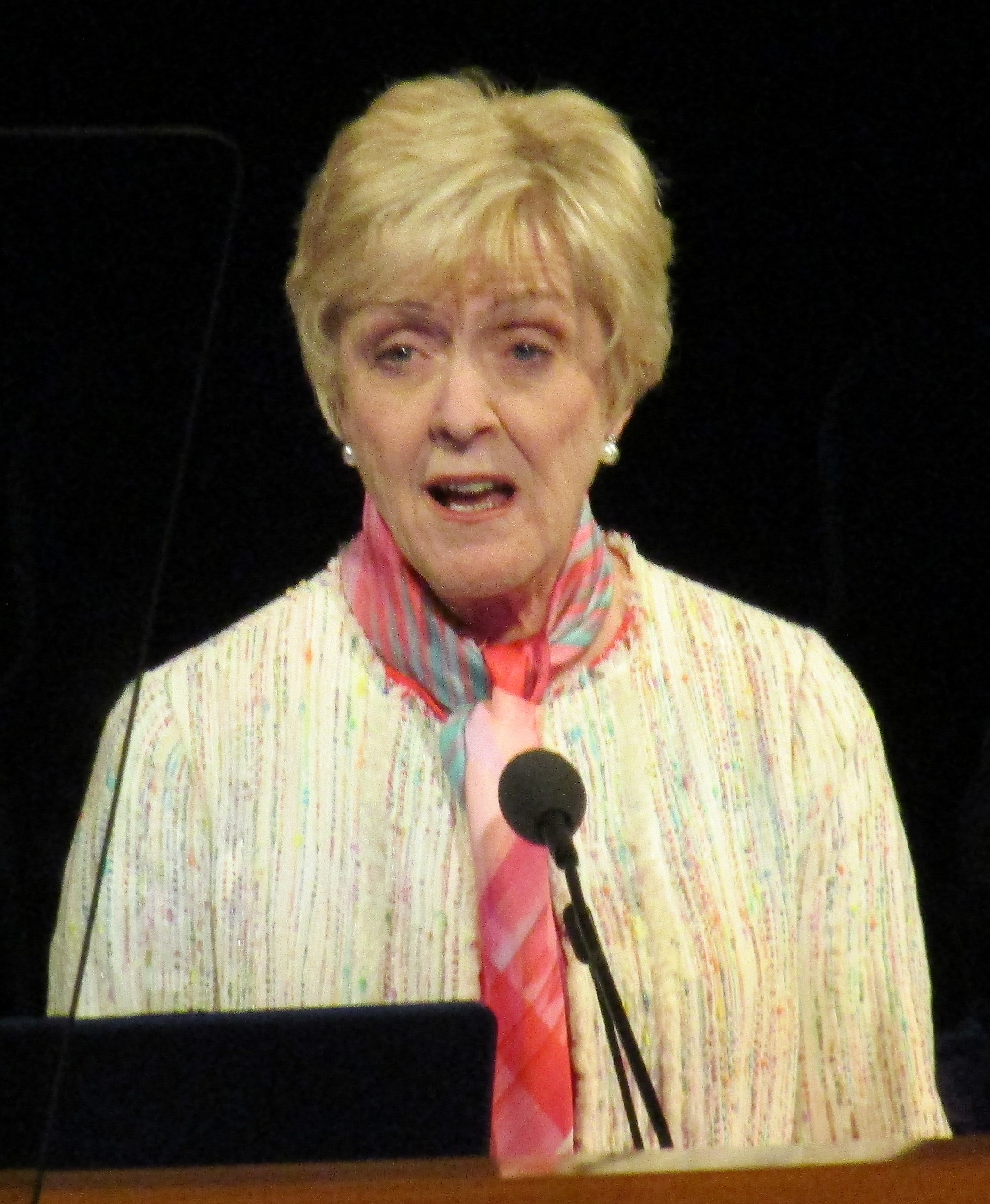 Heidi S. Swinton speaking at the BYU Women's Conference.